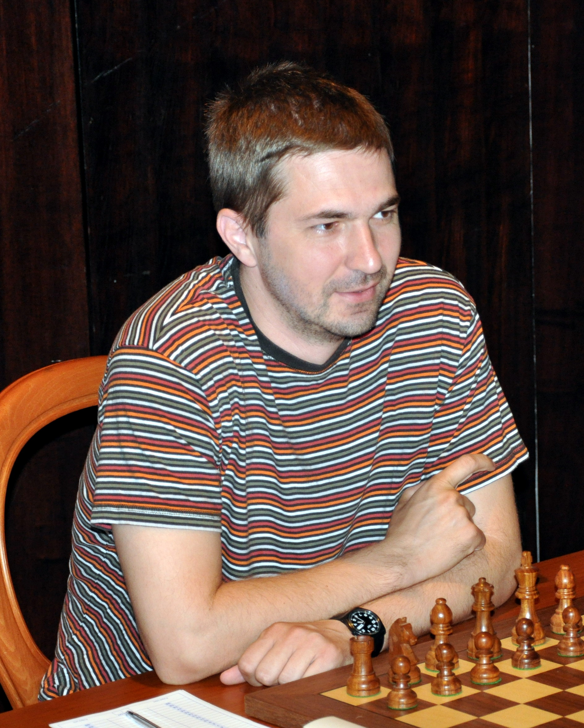 GM Aleksandar Kovacevic, Pula Open 2011.